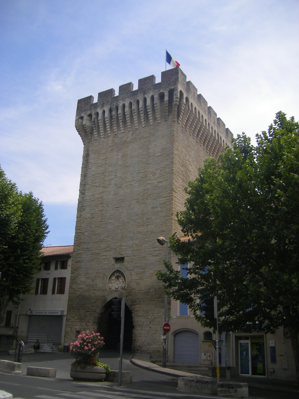 Carpentras, city walls